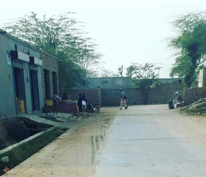 I also Uploaded this Photo on Botala Facebook Page & on website